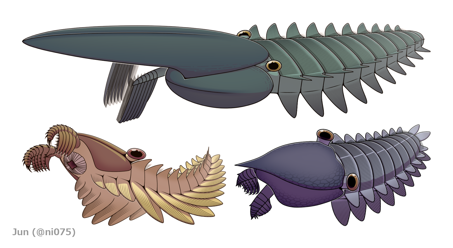 Examples of Hurdiid radiodonts (dinocaridid, stem-group arthropod). Size not to scale.